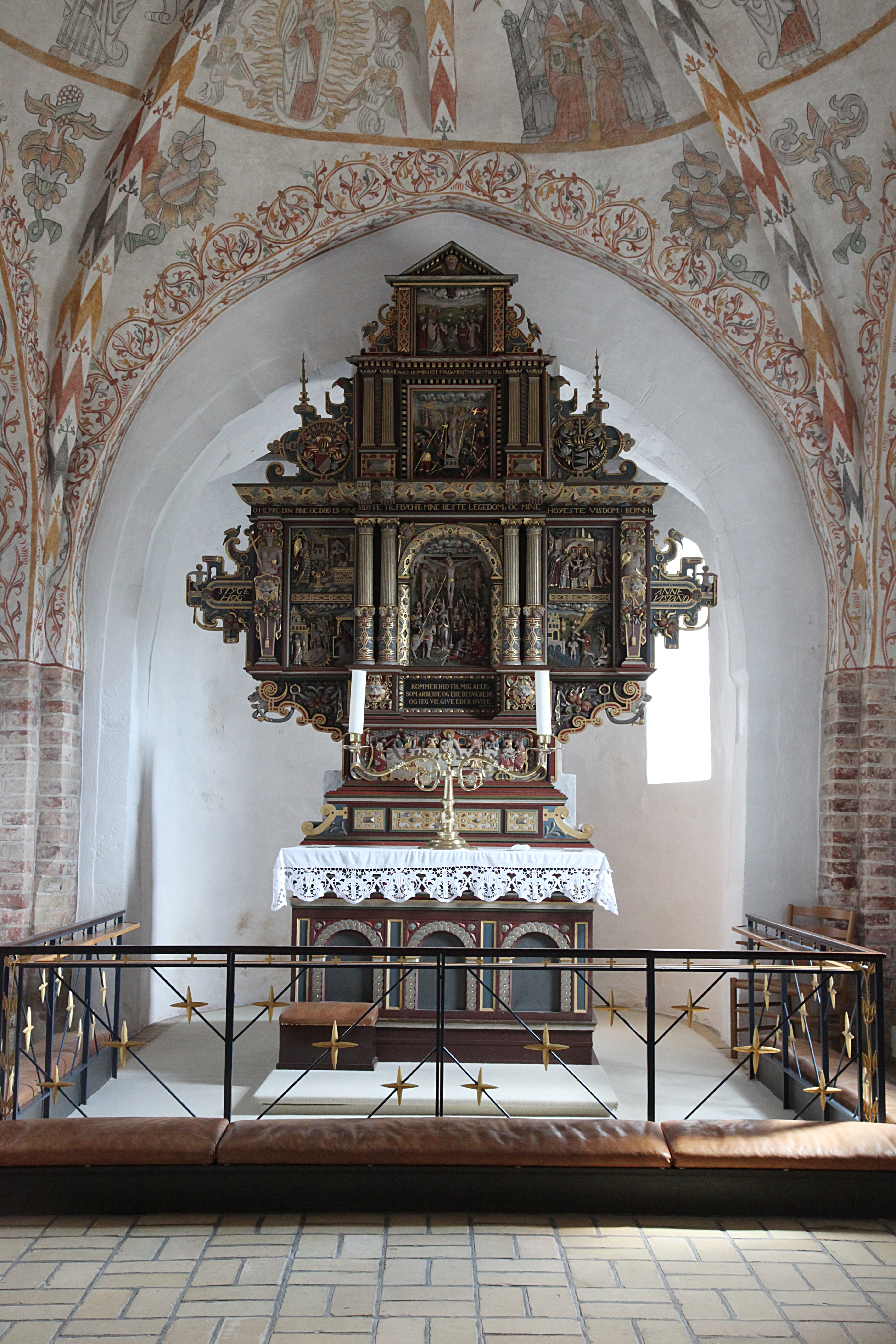 Altar in Sulsted Kirke just north of Aalborg, Denmark